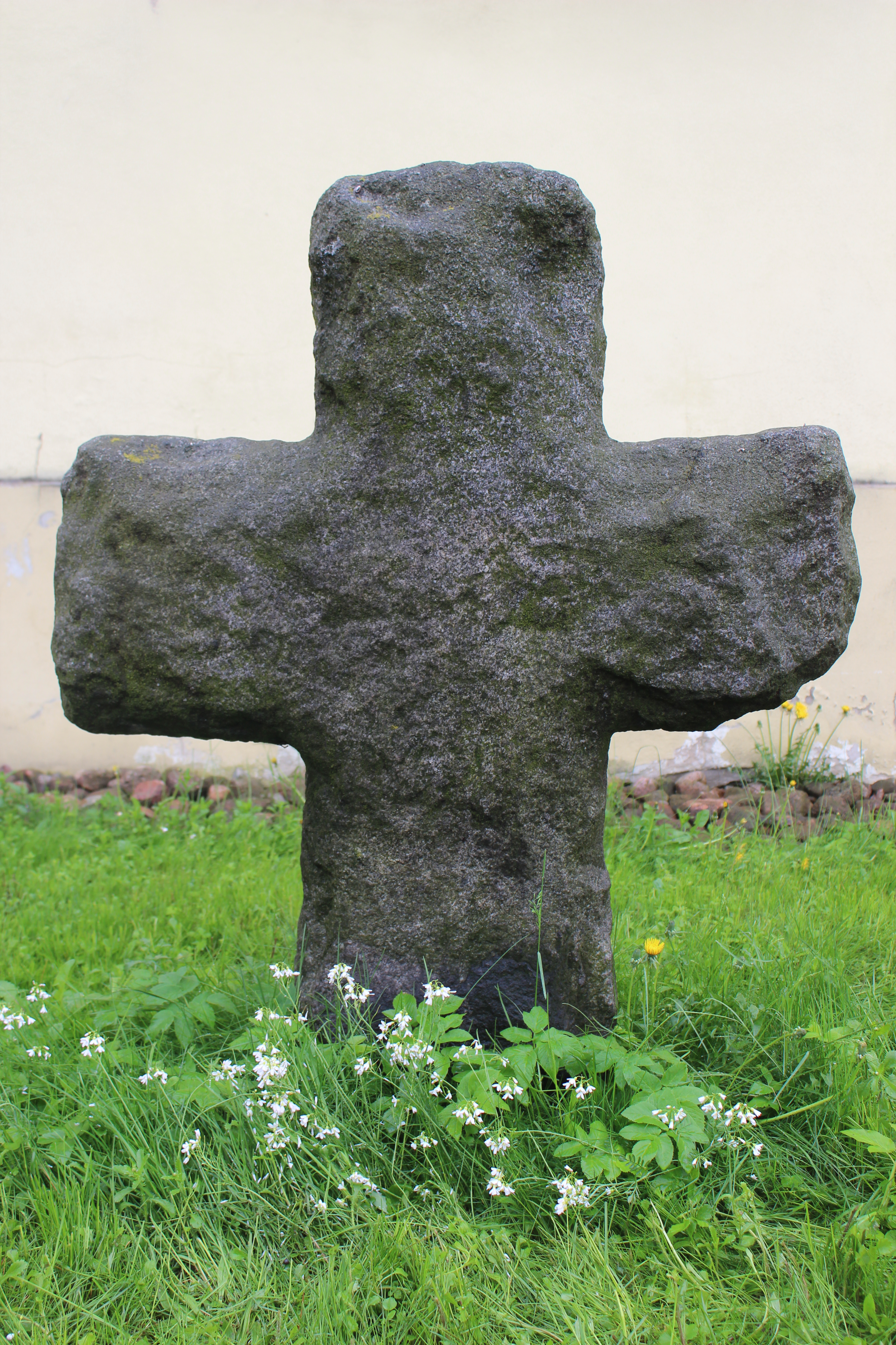 Stone cross in Wojnowice, Wrocław County